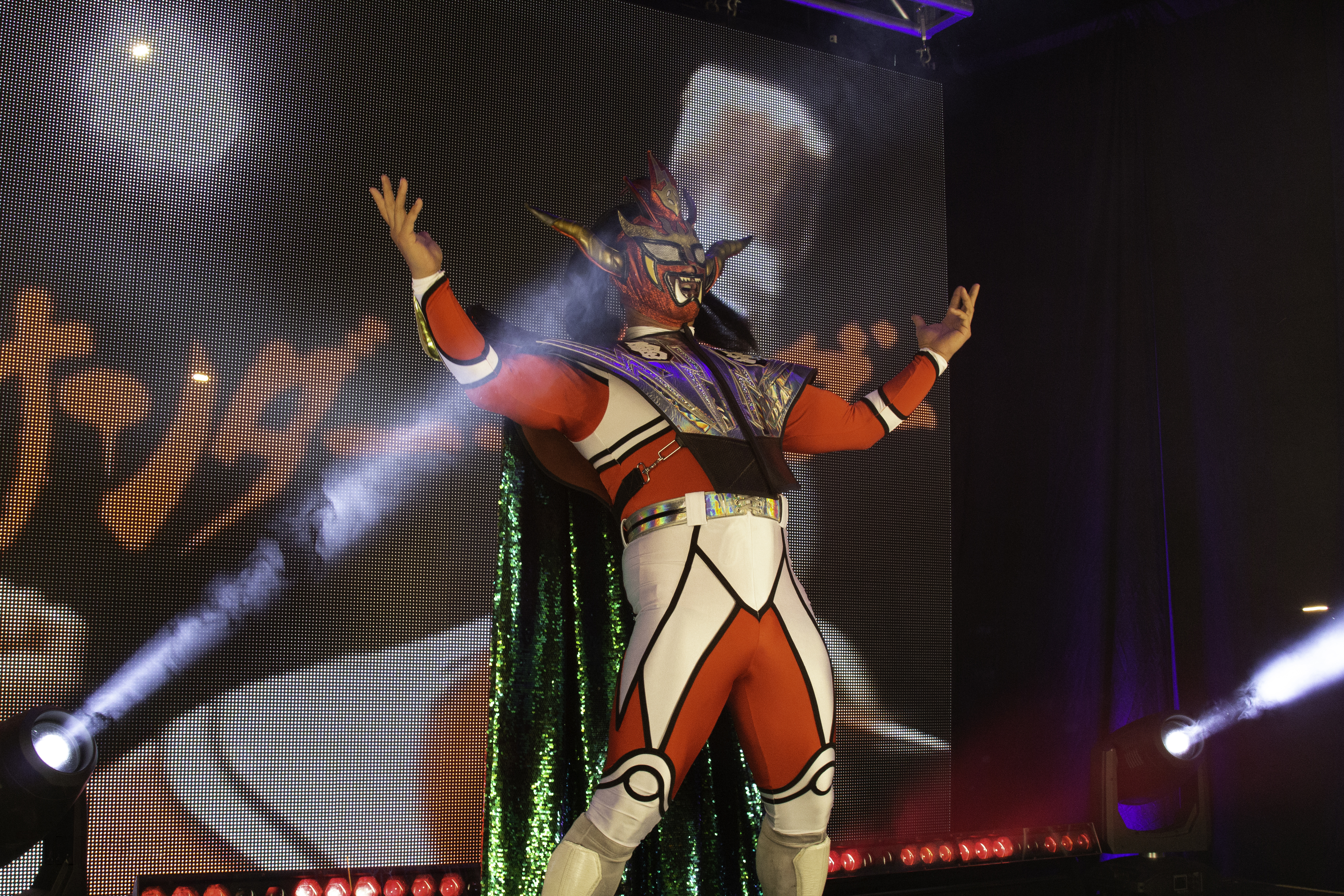 Jushin Liger at ROHxNJPW Global Wars 2018 Night 2 in May 2018.